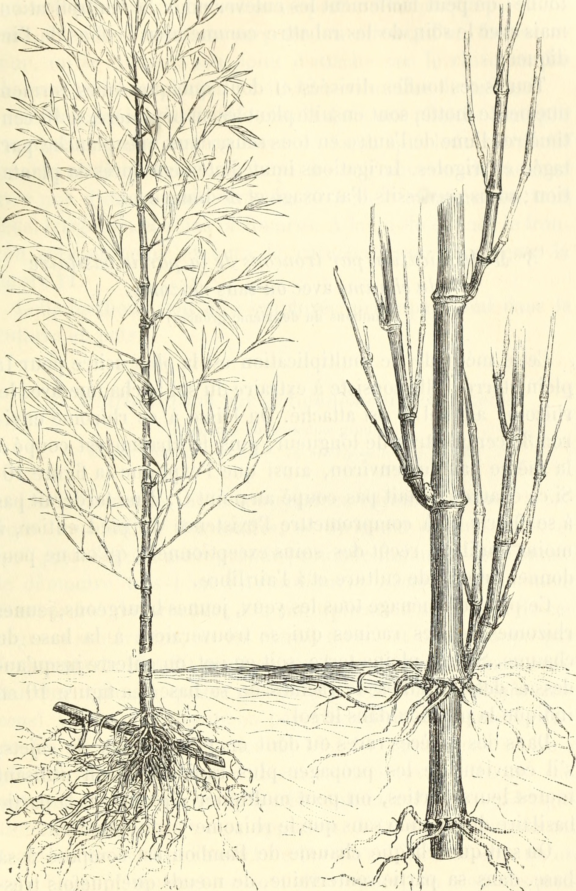 Title: Bulletin de la Société nationale d'acclimatation de France Year: 1882 (1880s) Authors: Société nationale d'acclimatation de France Subjects: Natural history; Zoology Publisher: Paris : Au Siége de la Société Text Appearing Before Image: M Text Appearing After Image: Fig. 10-11. — PH\LLOSTACHYS VÏR1D1-GLAUCESCENS 10. Multiplication par chaume avec rhizome. —11. Multiplication par la hase du chaume sans rhizome.